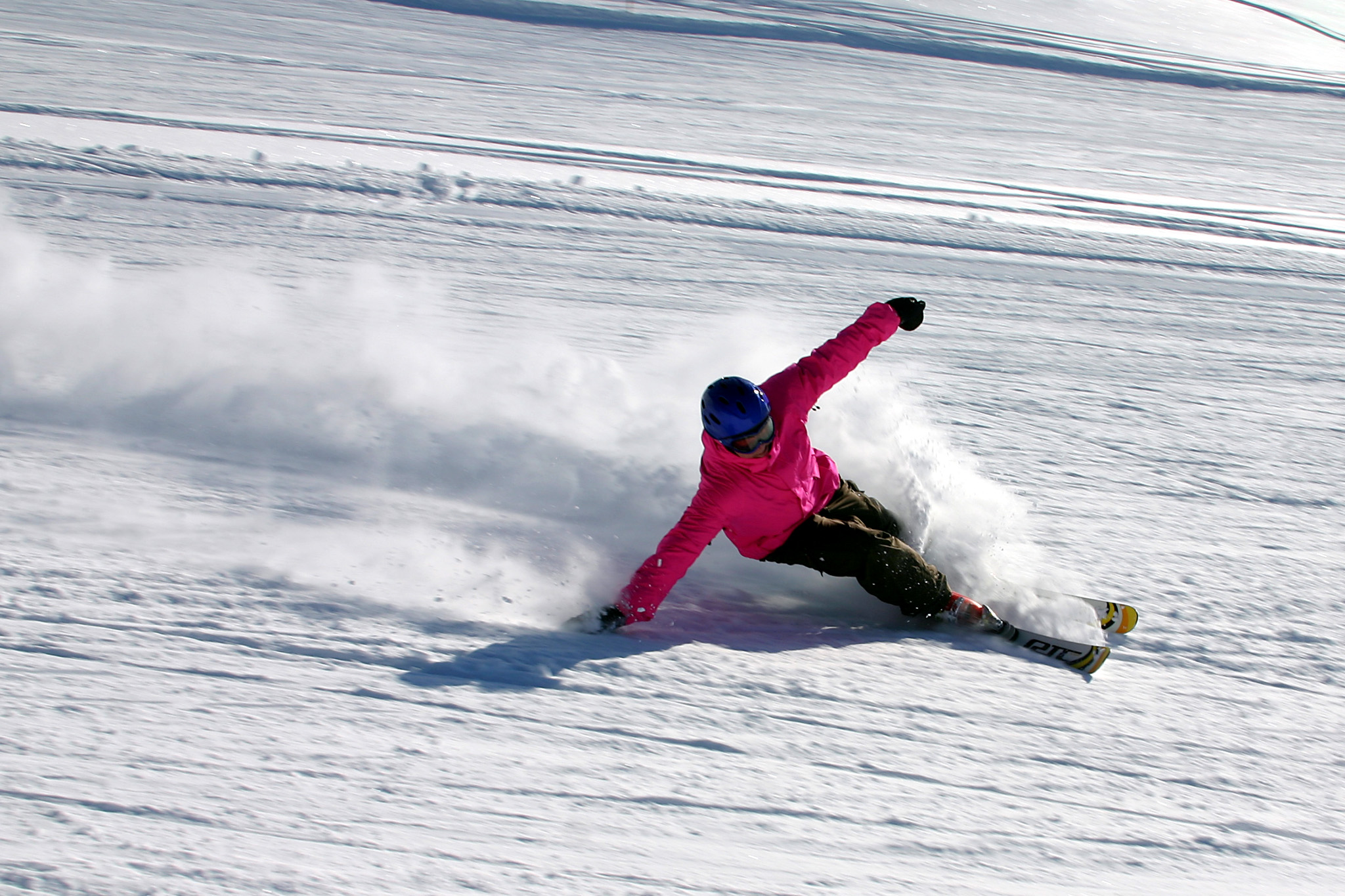 Carving